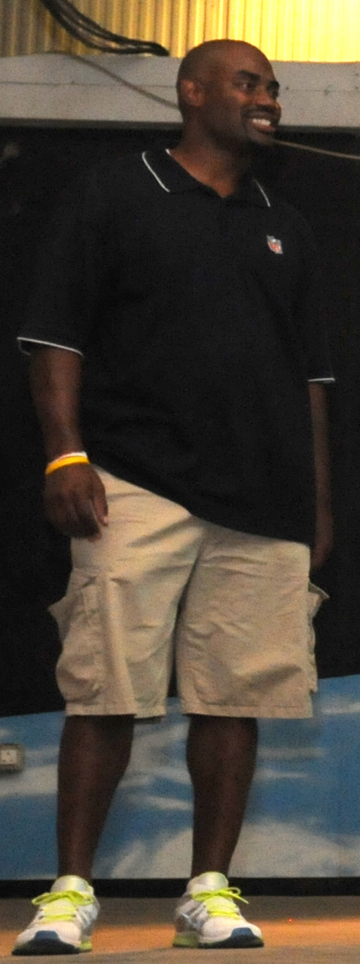 120905-F-US105-005 SOUTHWEST ASIA -- Christopher Draft, National Football League alumnus, answers questions from 380th Air Expeditionary Wing members during visit here Sept. 5, 2012. Four Washington Redskins cheerleaders and four NFL alumni visited the wing Sept. 5 and 6 during an Armed Forces Entertainment tour. (Note the EXIF date of 2012-01-19 is likely incorrect.)